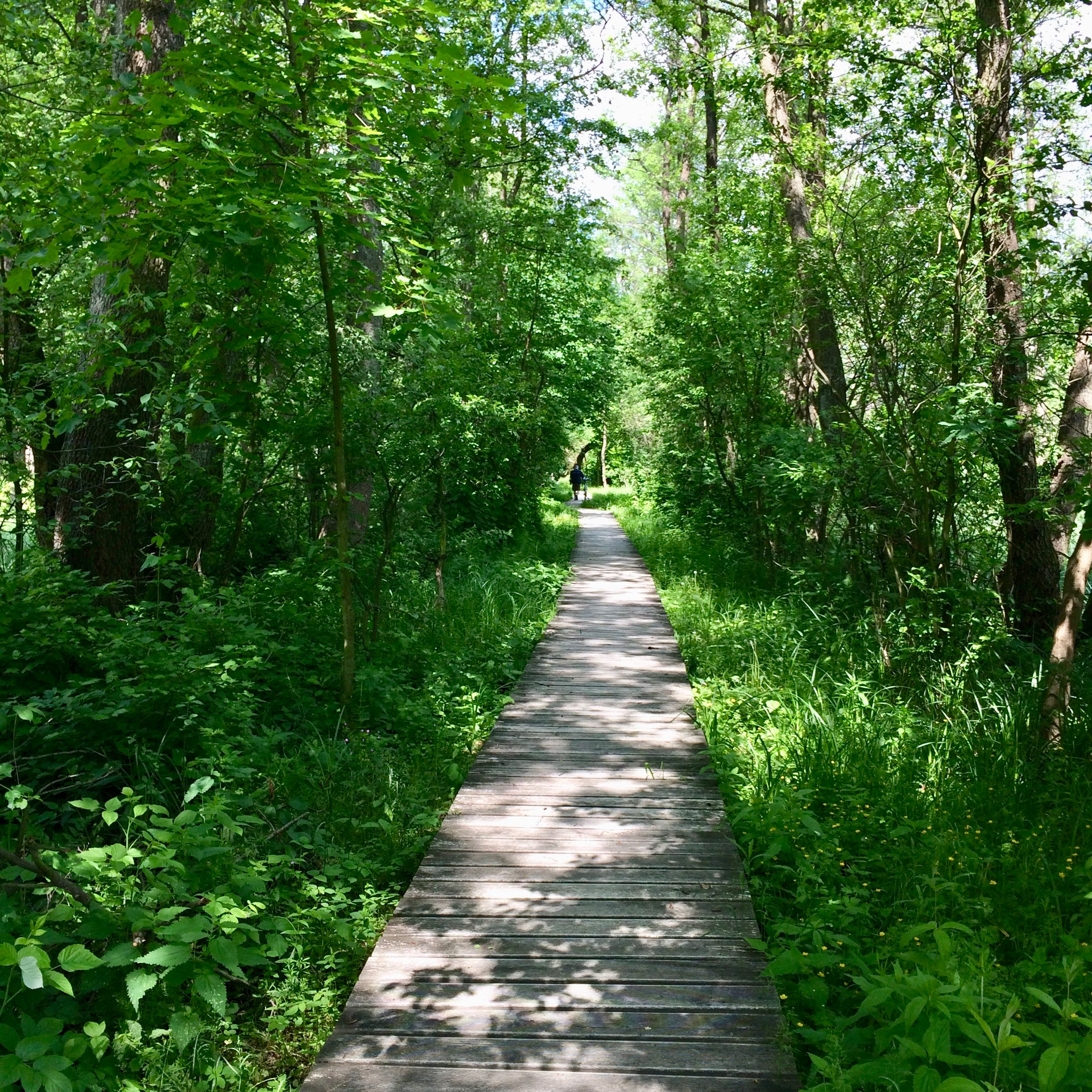 Footbridge in Kampinos National Park